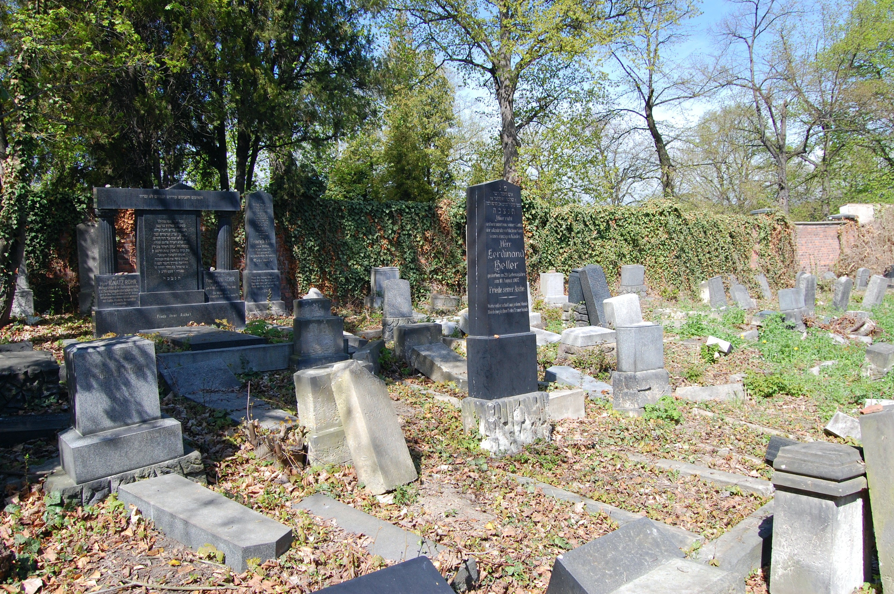 Jewish cemetery in Bílina, Czech Republic. Česky: Židovský hřbitov v Bílině